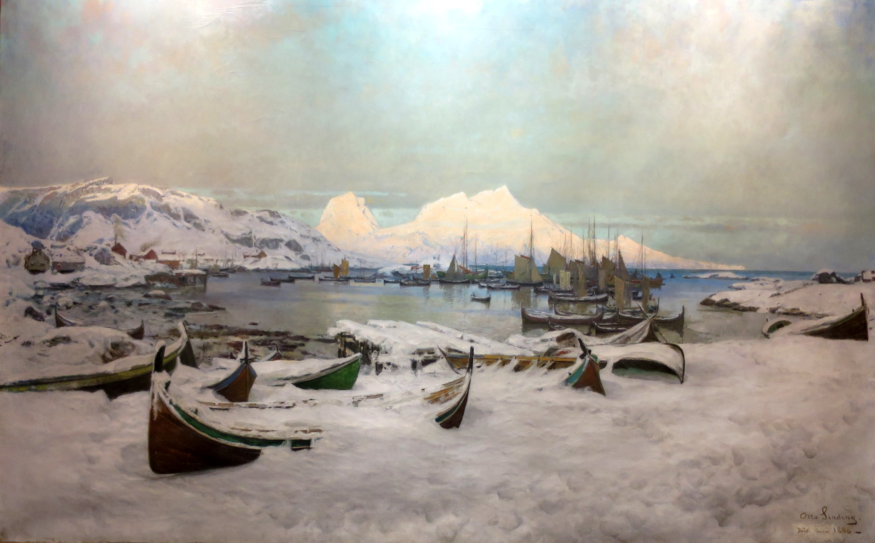 Winter in Lofoten, 1886 by Otto Sinding, 1886, oil on canvas, Bergen Kunstmuseum